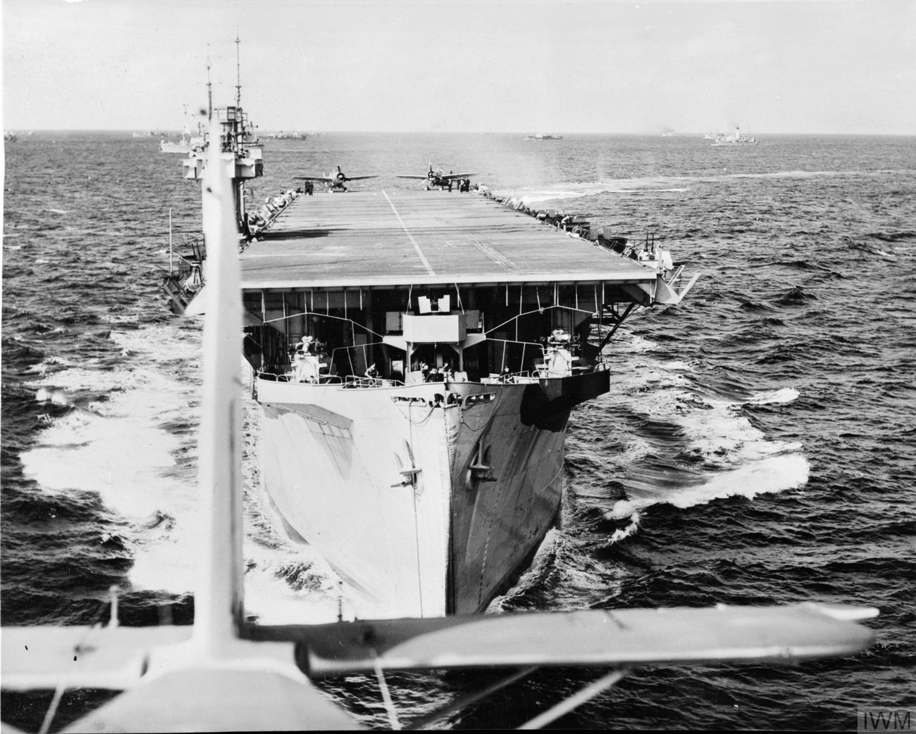 Air view of the Royal Navy Avenger class escort carrier HMS Biter (D97) from one of her Fairey Swordfish planes just after taking off. Ready on the deck are two Wildcat fighters, and in the distance ships of the convoy.